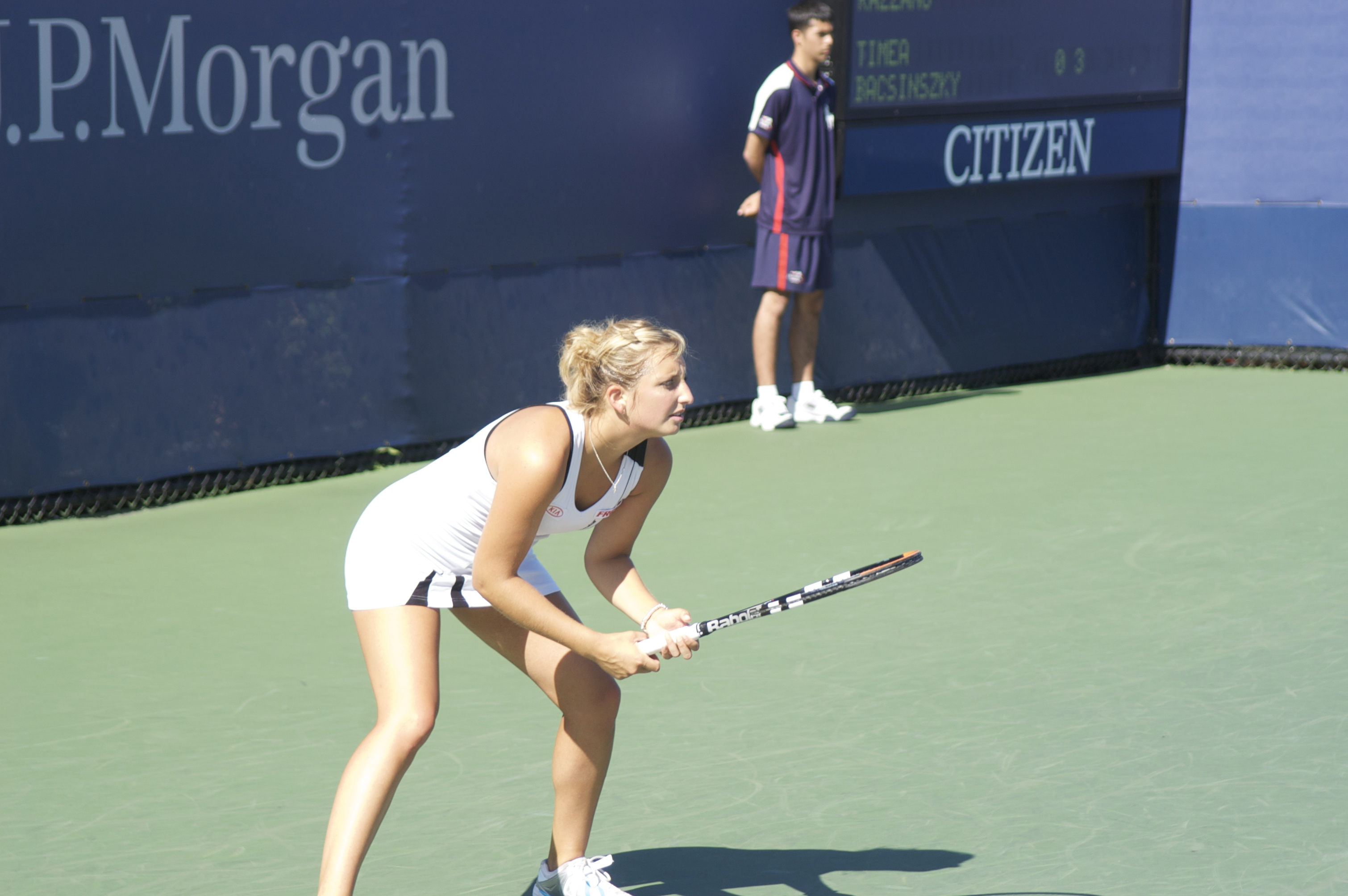 Timea Bacsinszky at the 2008 U.S. Open (tennis)